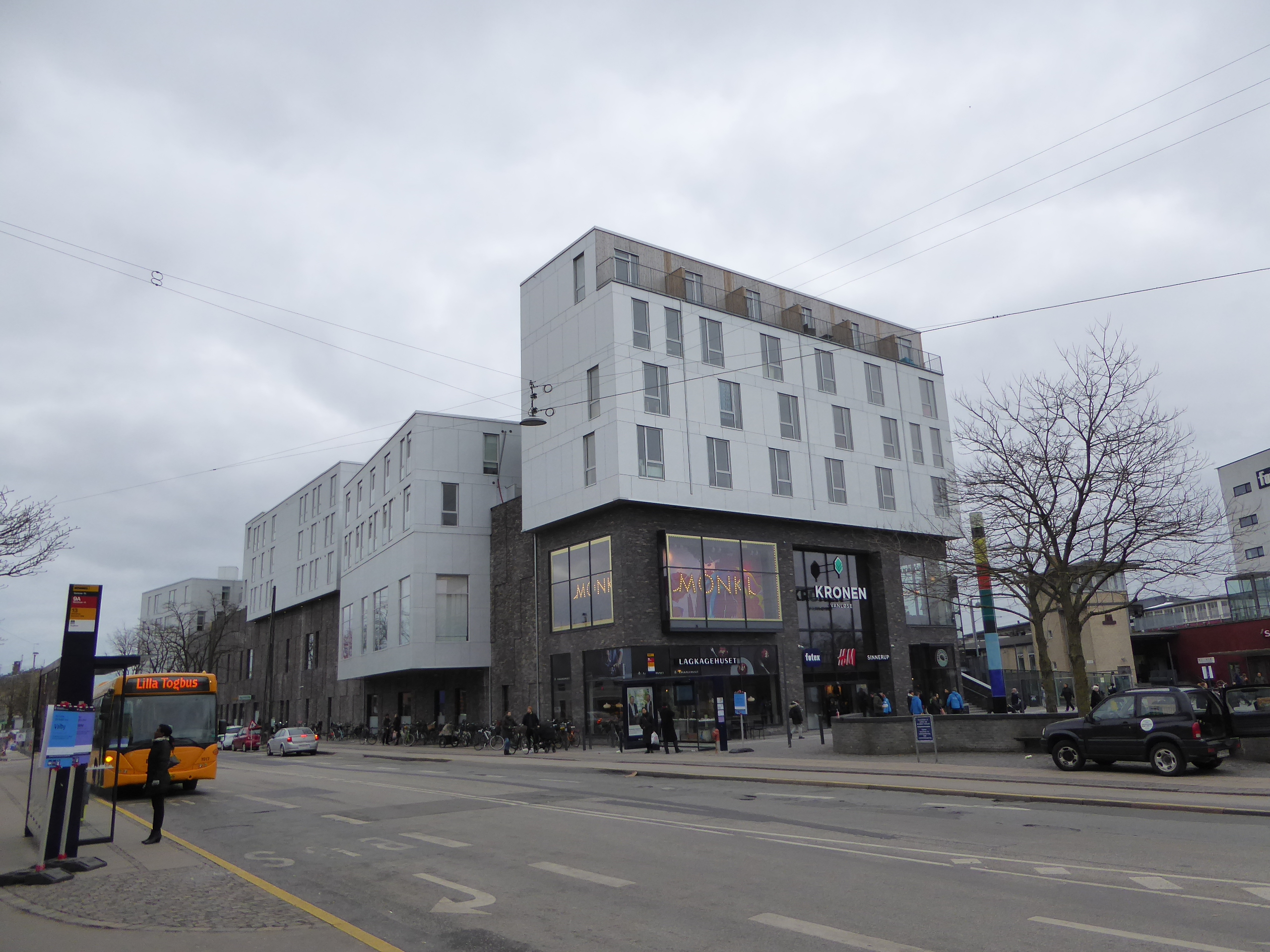 The shopping center Kronen in Vanløse in Copenhagen.